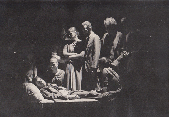 "Esta Noite se Improvisa", de 1984, reconhecimento nacional.